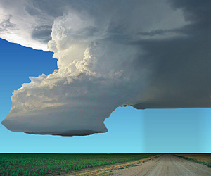 In LP supercells the updraft is on the rear flank of the storm, a barber pole or corkscrew appearance of updraft is possible, precipitation sparse or well removed from the updraft, often is transparent and you can"t see it, and large hail is often difficult to discern visually. Also, there is no "hook" seen on Doppler radar.